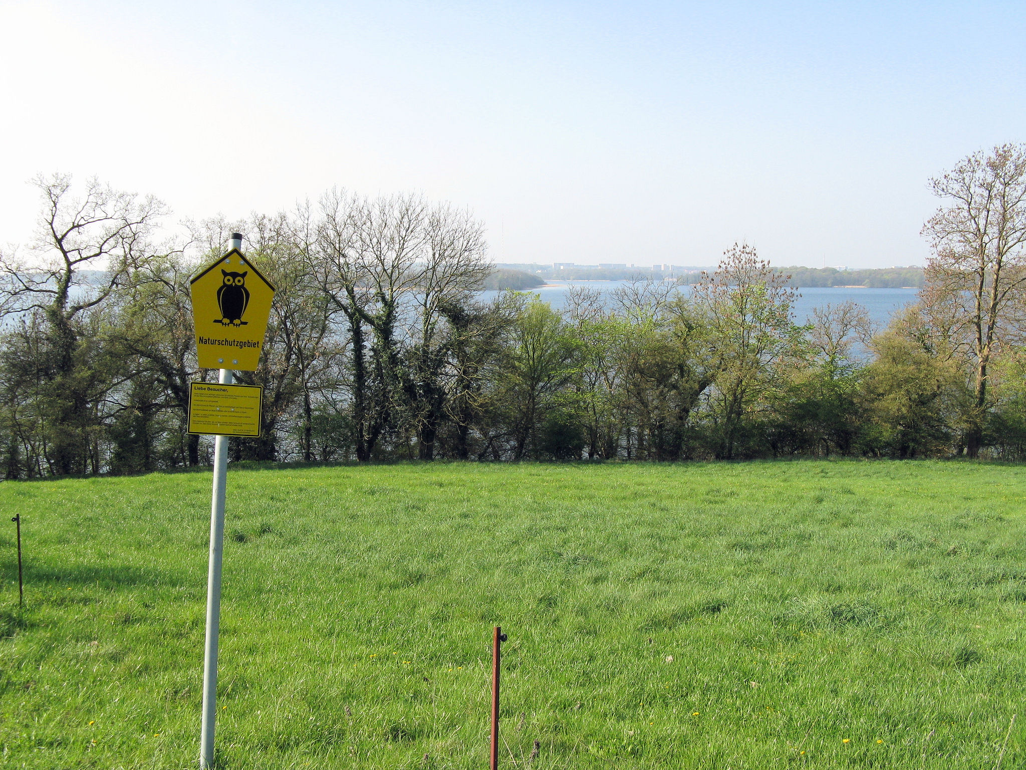 Eastern shore of Schweriner See in Görslow, disctrict Parchim, Mecklenburg-Vorpommern, Germany